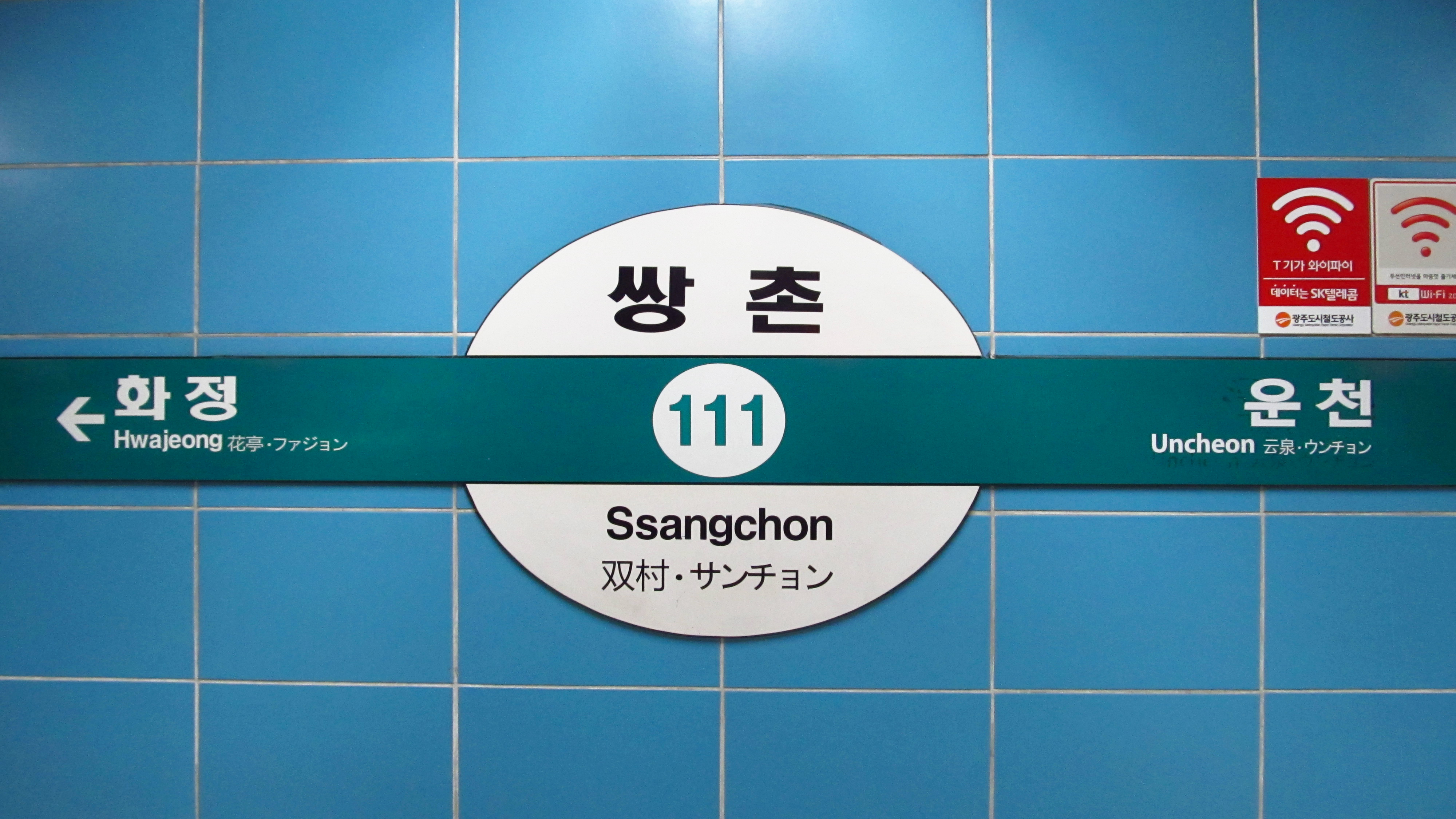 A sign of Ssangchon Station on Gwangju Metro Line 1